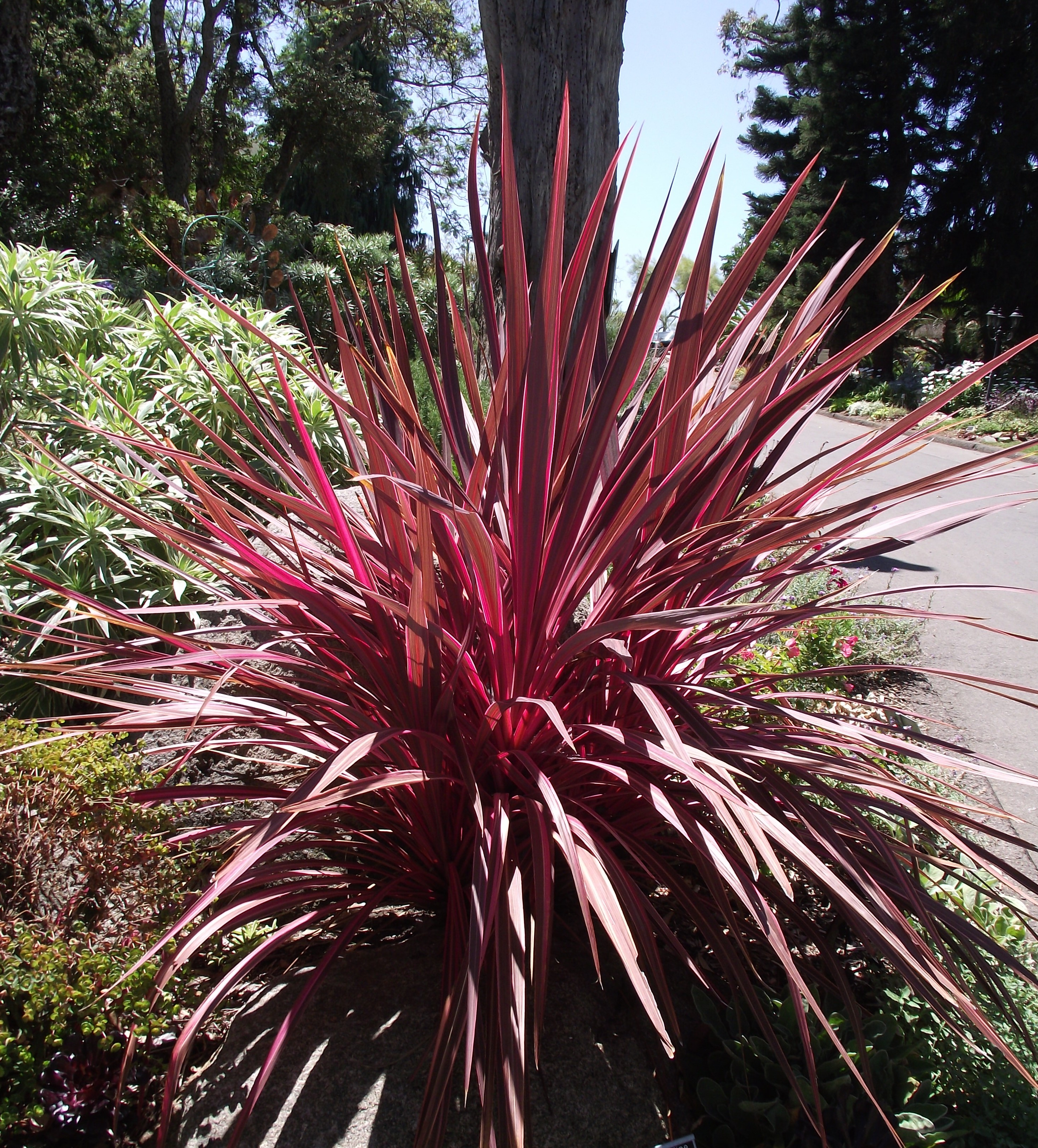 Cordyline 'Electric Pink' at the San Diego Botanic Garden, Encinitas, California, USA. Identified by sign.